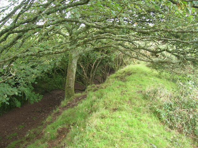 Tregeare Rounds outer defence Starting to get overgrown but still impressively steep.